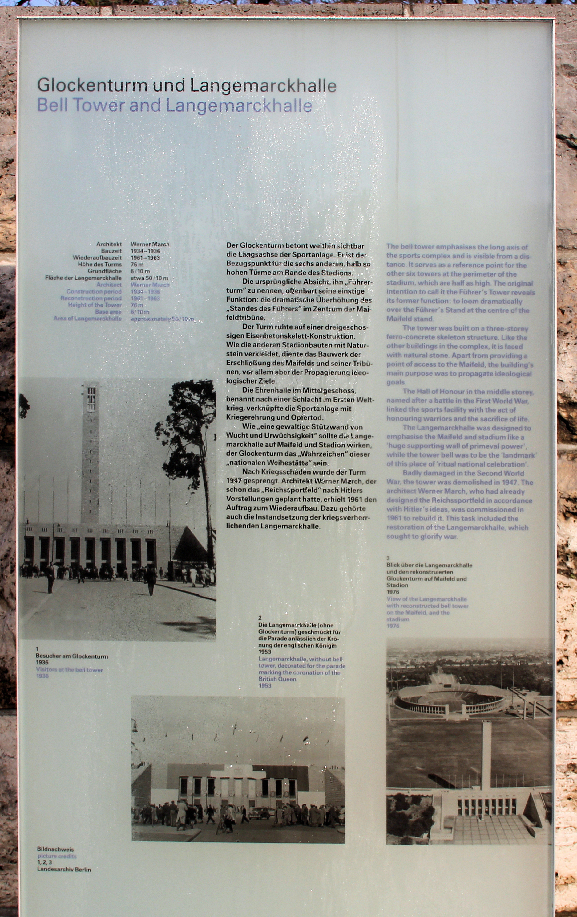 Memorial plaque, Glockenturm und Langemarckhalle, Am Glockenturm , Berlin-Westend, Germany